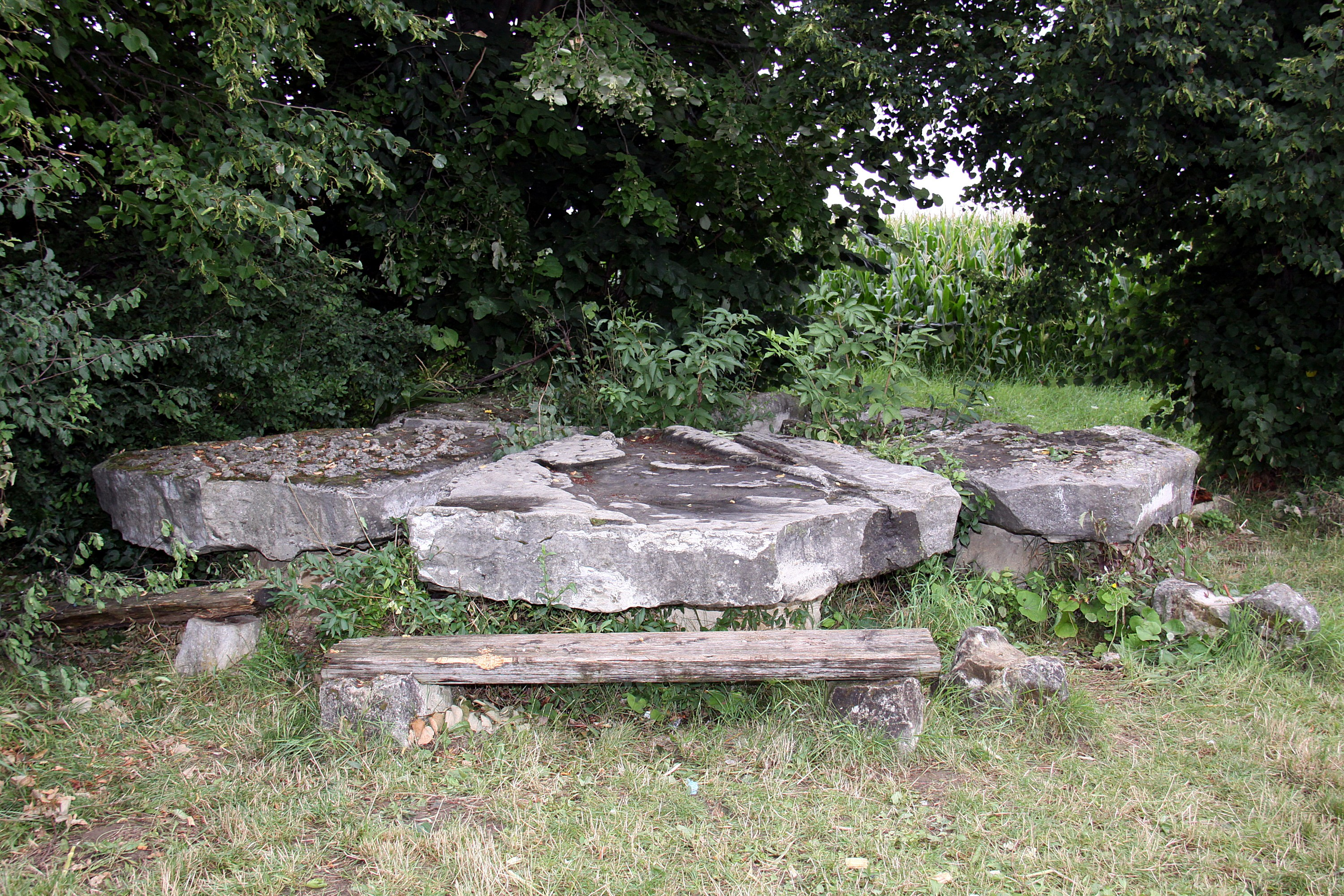 Hexenhügel - Krensdorf Object location47° 47′ 39.51″ N, 16° 26′ 04.46″ E